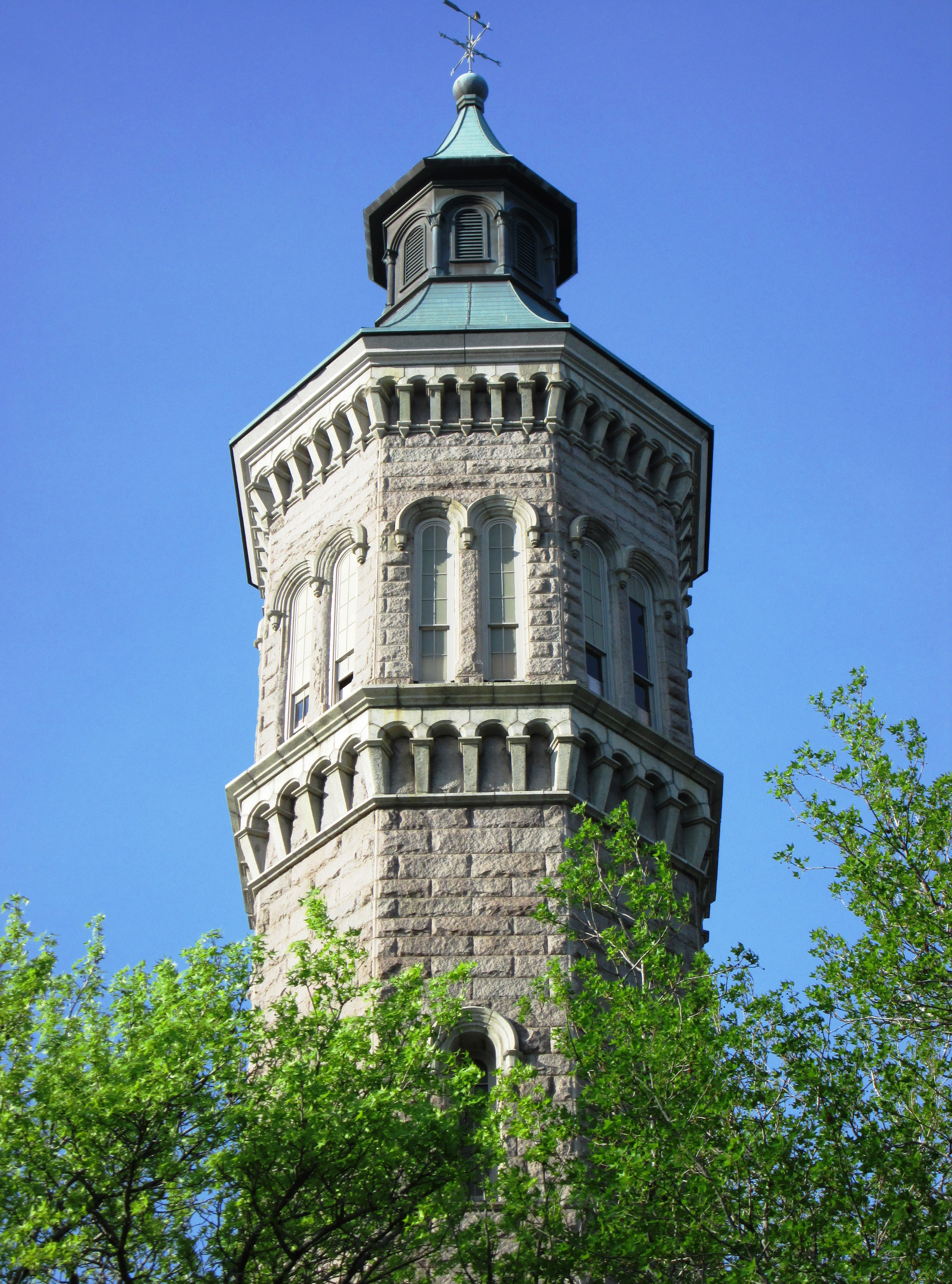 The High Bridge Water Tower, located in Highbridge Park between West 173rd and 174th Streets, was built in 1866-72 to help meet the increasing demands on the city's water system. The 200-foot octagonal tower was designed by John B. Jervis in a mixture of the Romanesque Revival and neo-Grec styles, and was accompanied by a 7-acre reservoir. The High Bridge system was taken out of service in 1949, and the tower's cupola was damaged by an arson fire in 1984. The tower and cupola were rehabilitated and restored in 1989-90. (Sourced: Guide to NYC Landmarks (4th ed.) and New York Times article)